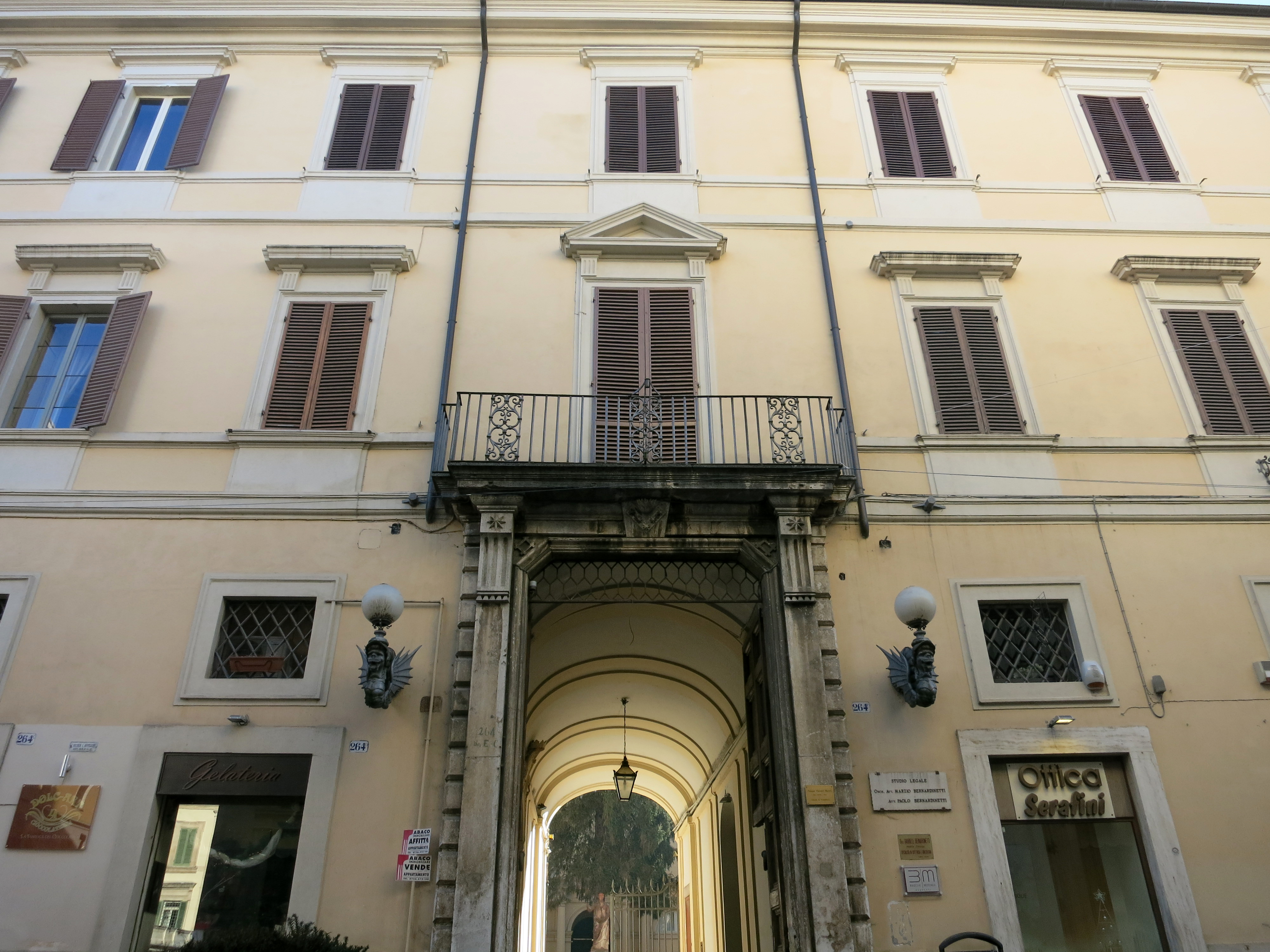 Palazzo Vincenti Mareri - Rieti, Lazio, Italy